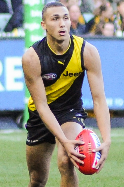 Shai Bolton during the AFL round thirteen match between Richmond and Sydney on 17 June 2017 at the Melbourne Cricket Ground in Melbourne, Victoria.